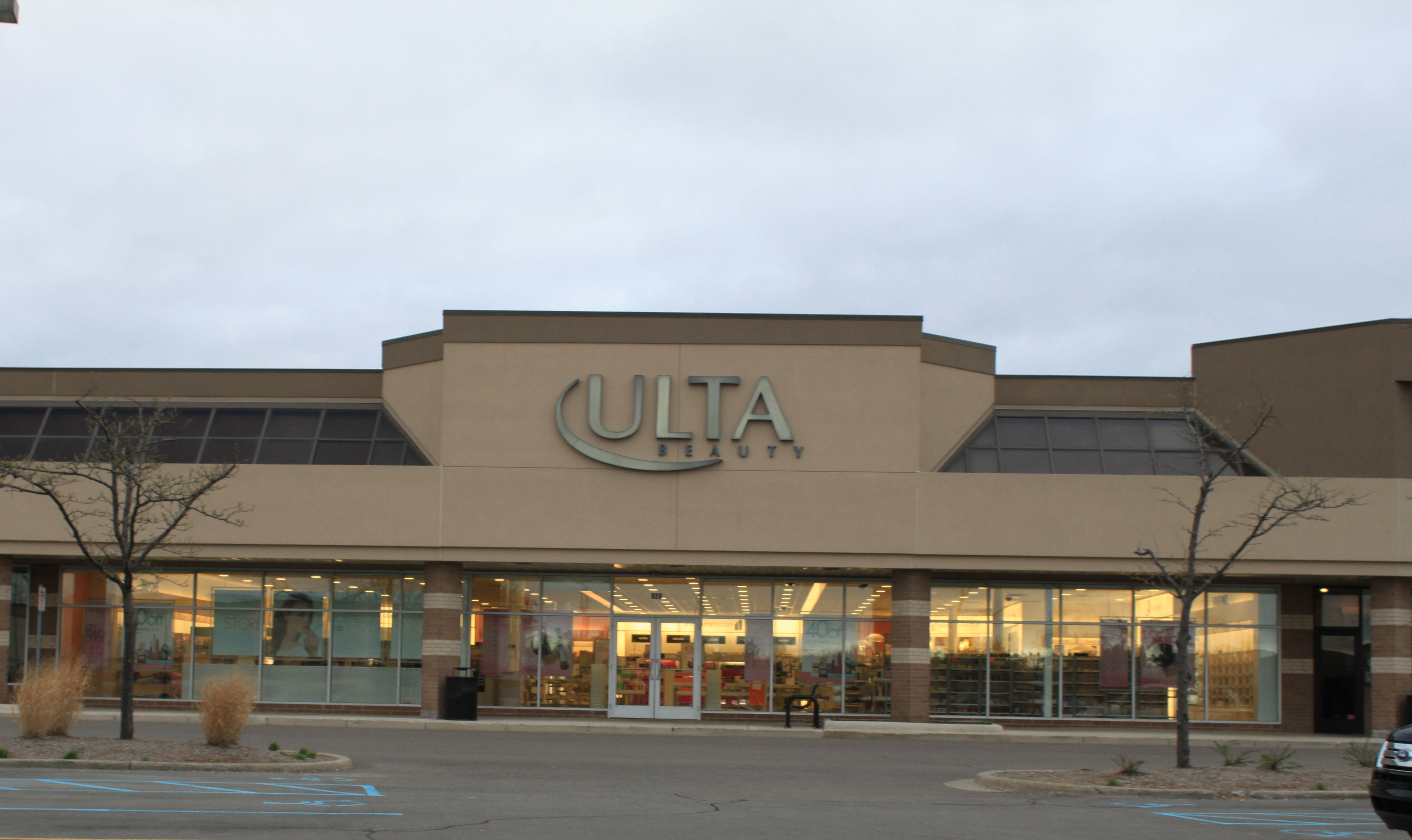 Ulta Beauty, 928 Eisenhower Pkwy, Ann Arbor, MI 48103, Canrbrook Village Shopping Center